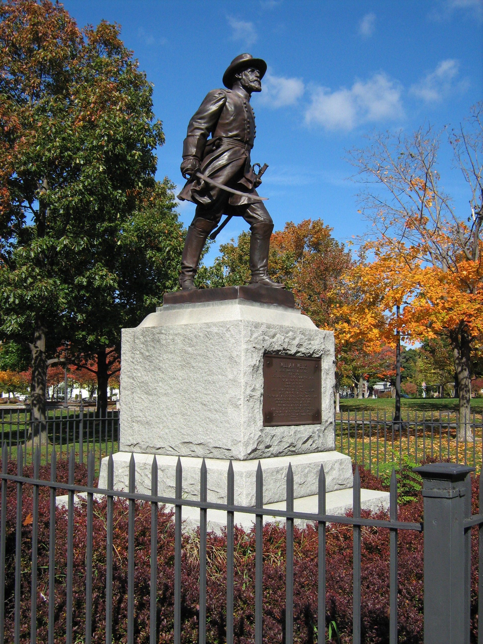 Statue of Major General William Wells in Battery Park, Burlington, Vermont.